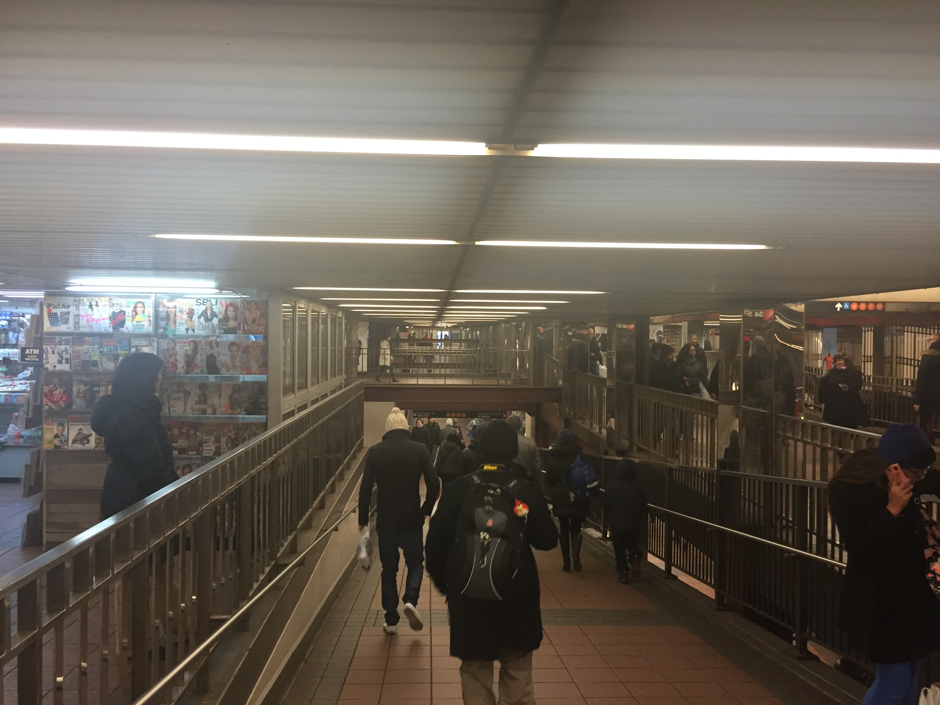 Ramp at the 34th Street-Herald Square Subway station.